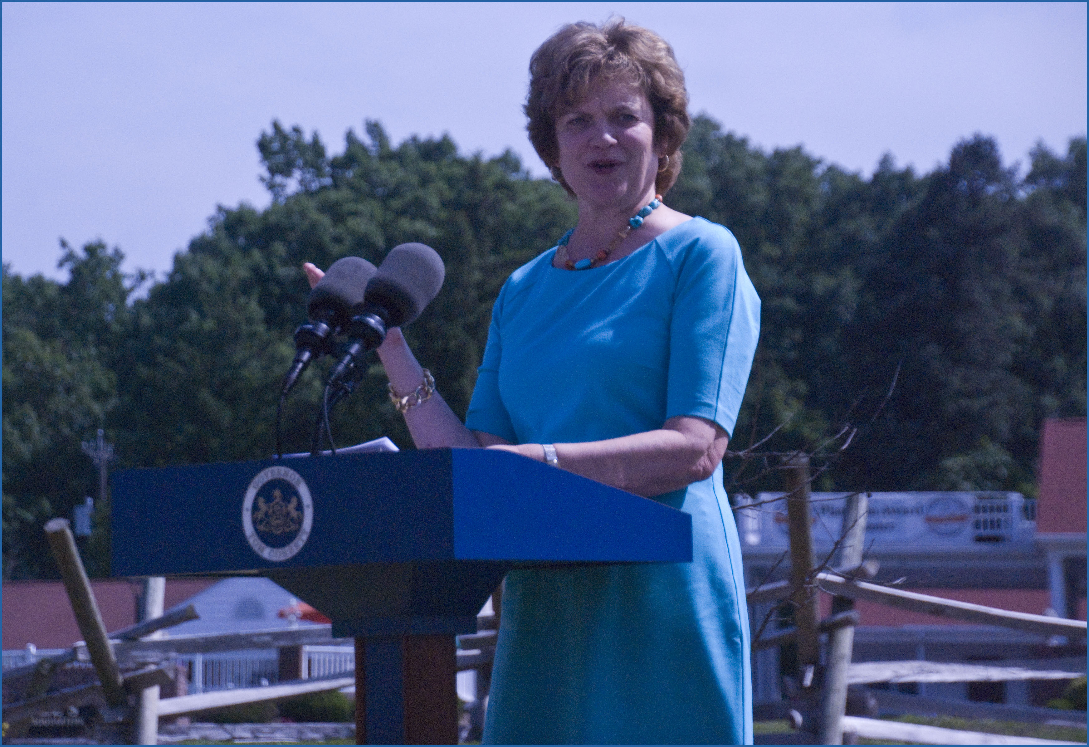 Susan Corbett, First Lady of Pennsylvania from 2011 to 2015, speaking at the Lee's Headquarters Press Conference at Gettysburg (PA) July 1, 2014